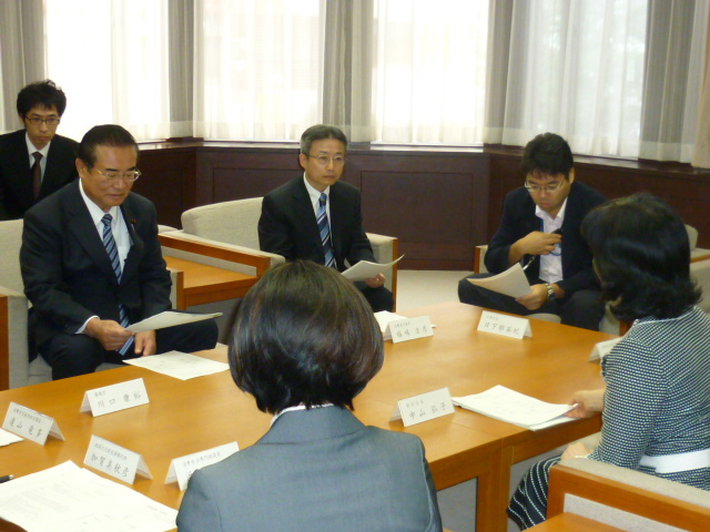 Kenji Yamaoka, Minister of State for Consumer Affairs and Food Safety, and Hirohiko Fukushima, Commissioner of the Consumer Affairs Agency, talked with Hiroko Nakayama, Mayor of Shinjuku Ward, at Tōkyō Metropolitan Comprehensive Consumer Center in Shinjuku Ward, Tōkyō Metropolis on October 19, 2011. (For terms of use, see 利用規約｜消費者庁.)